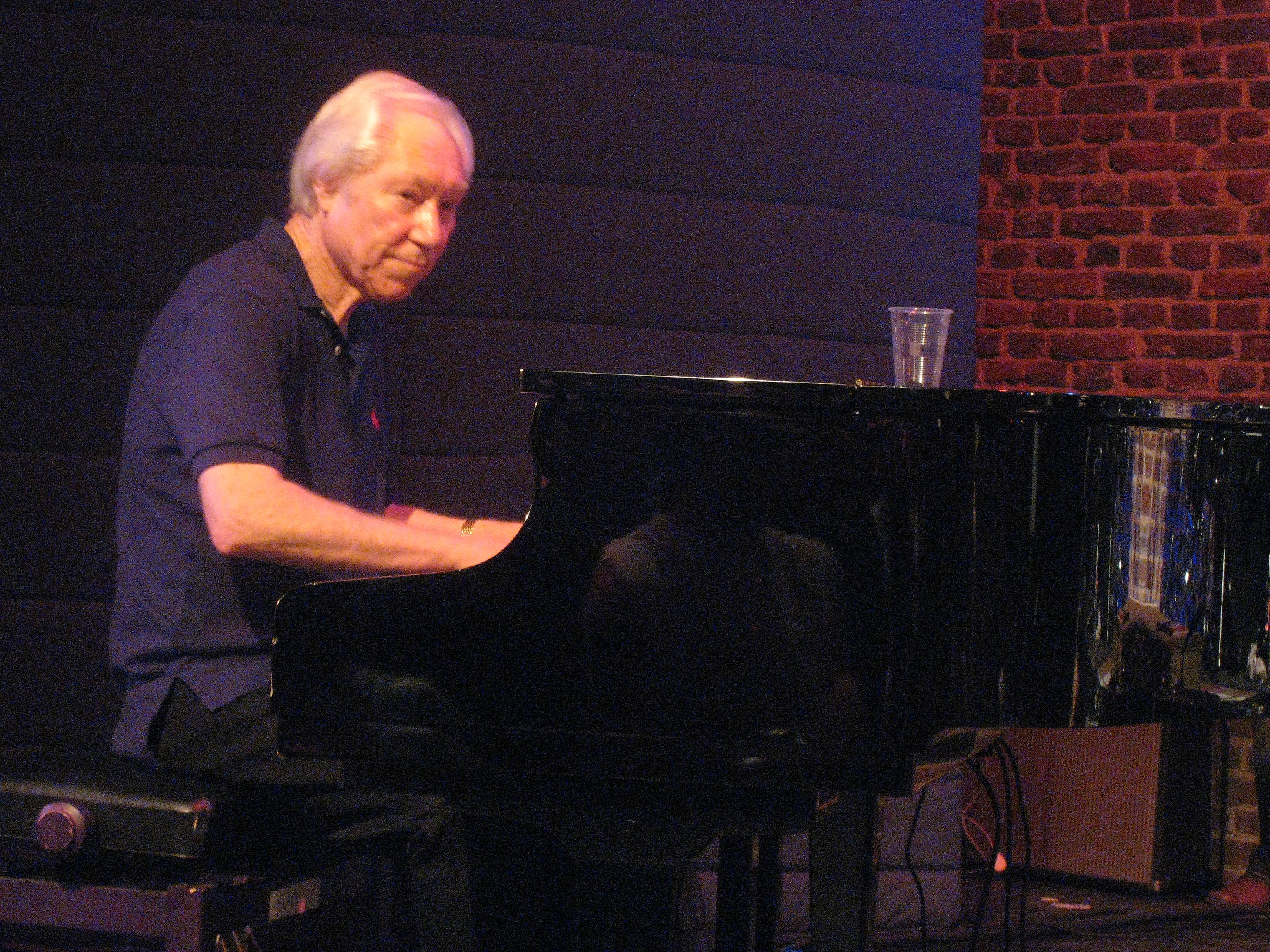 Glenn D Hardin